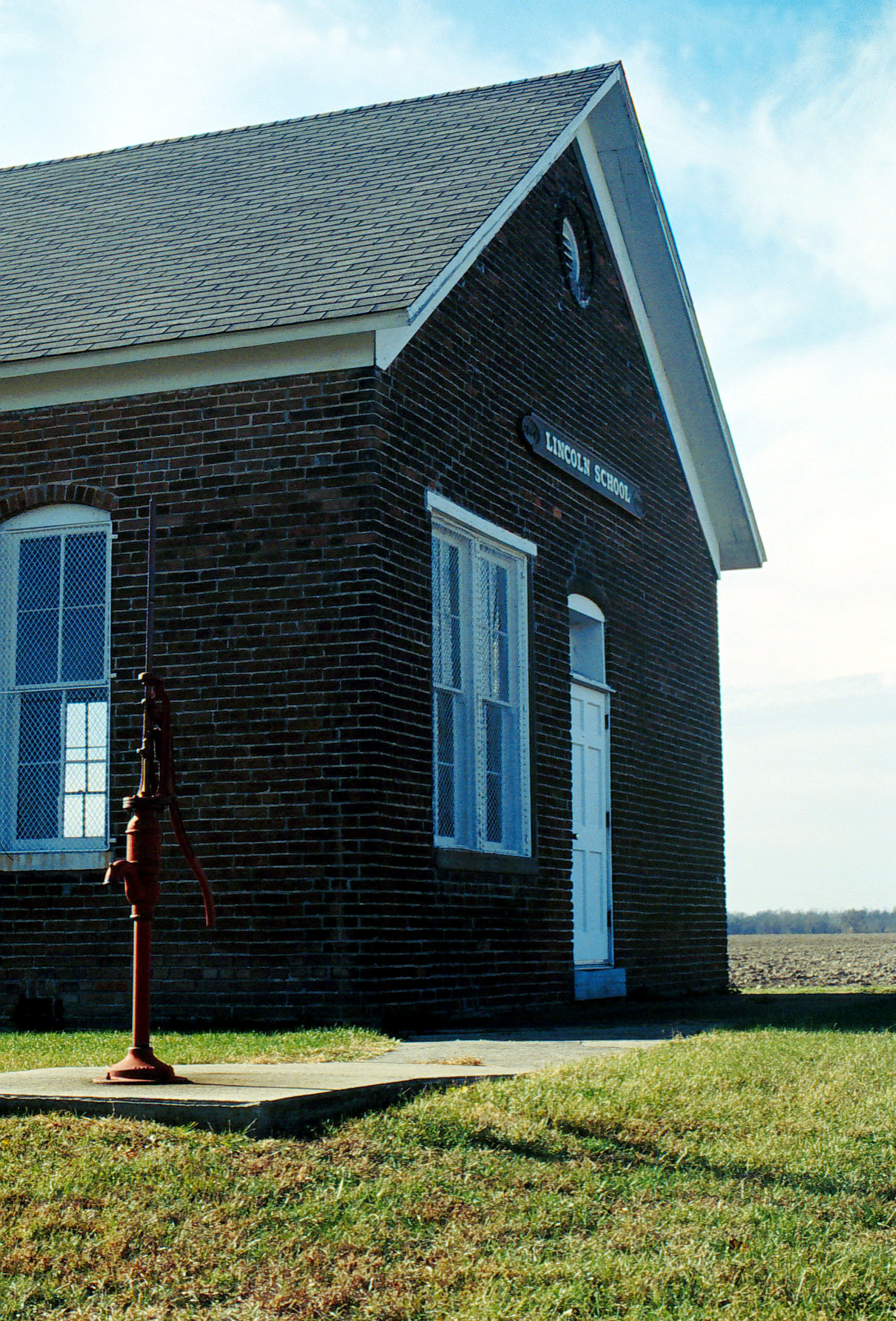 Lincoln School Museum, a one-room schoolhouse in the northwest quarter of section 32, township 11 north, range 13 west, in Martinsville Township, Clark County, Illinois: Built in the 1880s from bricks donated by a local businessman, it was named for Abraham Lincoln. Today the restored schoolhouse is a museum showcasing primary education of the late 19th century.